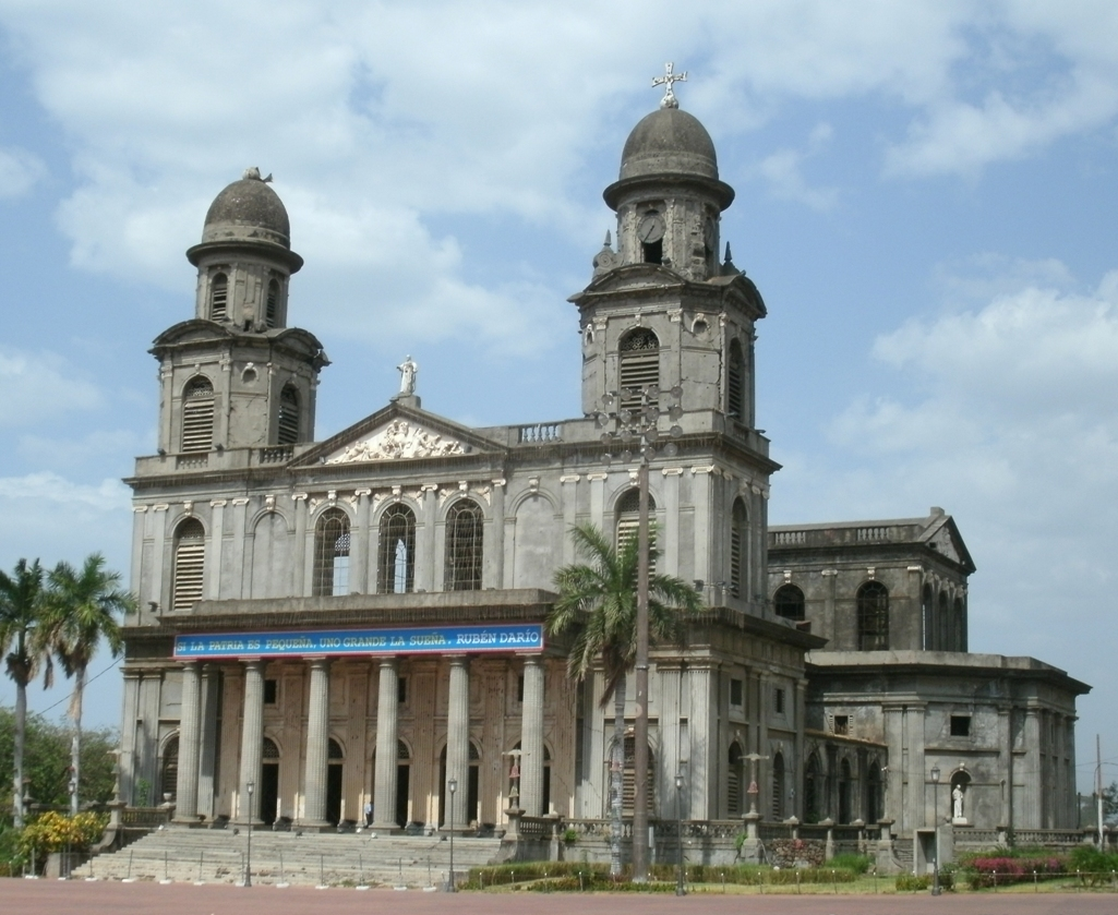 Old Cathedral in Managua. Photo from the book "200 Days in Latin America, V. Pinchuk, ISBN 978-5-9909912-0-0